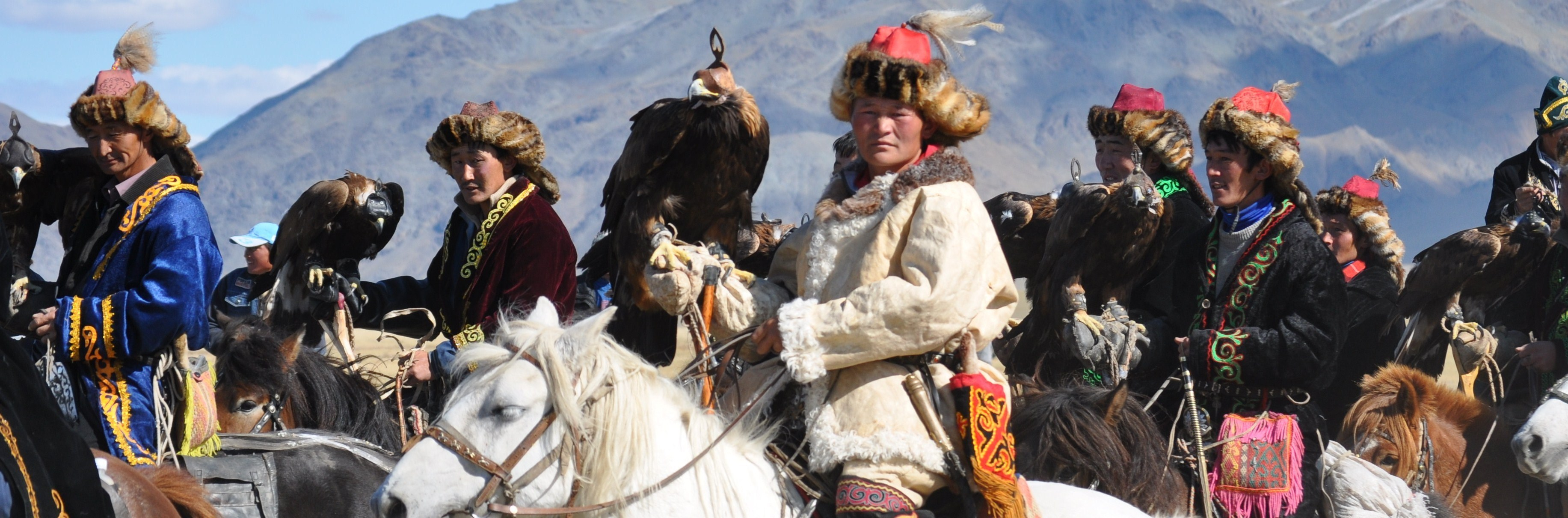 Kazakh eagle hunters in Olgii, Mongolia.